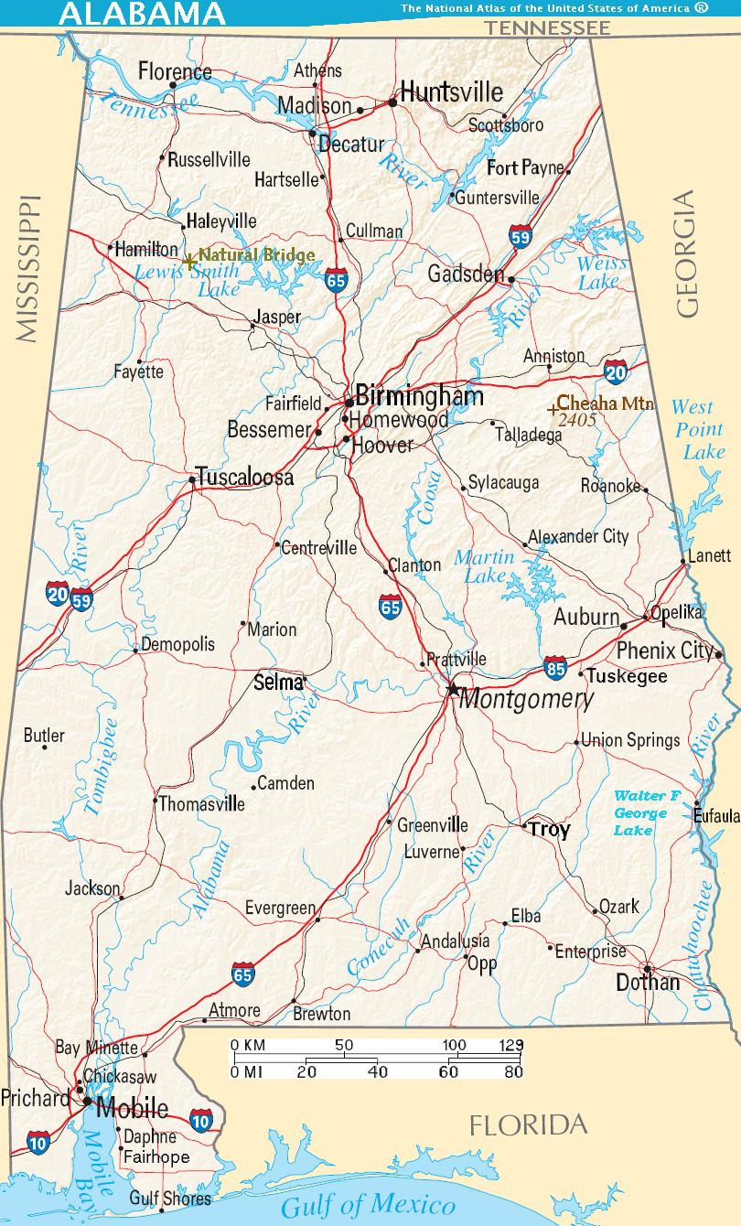 Scalable map of the U.S. state of Alabama, showing terrain features: hills, lakes, rivers, roads and major towns, in quick photographic format (JPEG) to highlight terrain features. Natural Bridge, Mount Cheaha, and nearby states are labeled; the Interstate icons are enlarged 10%; and major cities are bolded 20% for readability when scaled to 310px display width. The distance scale is shown in miles/kilometers, and labels appear 4x times larger than original in the US National Atlas, at similar display width.